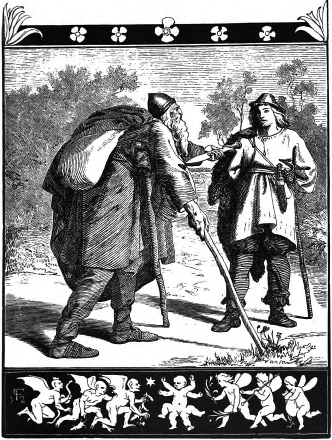 Starkaðr seeks death as depicted (1907) by Lorenz Frølich.